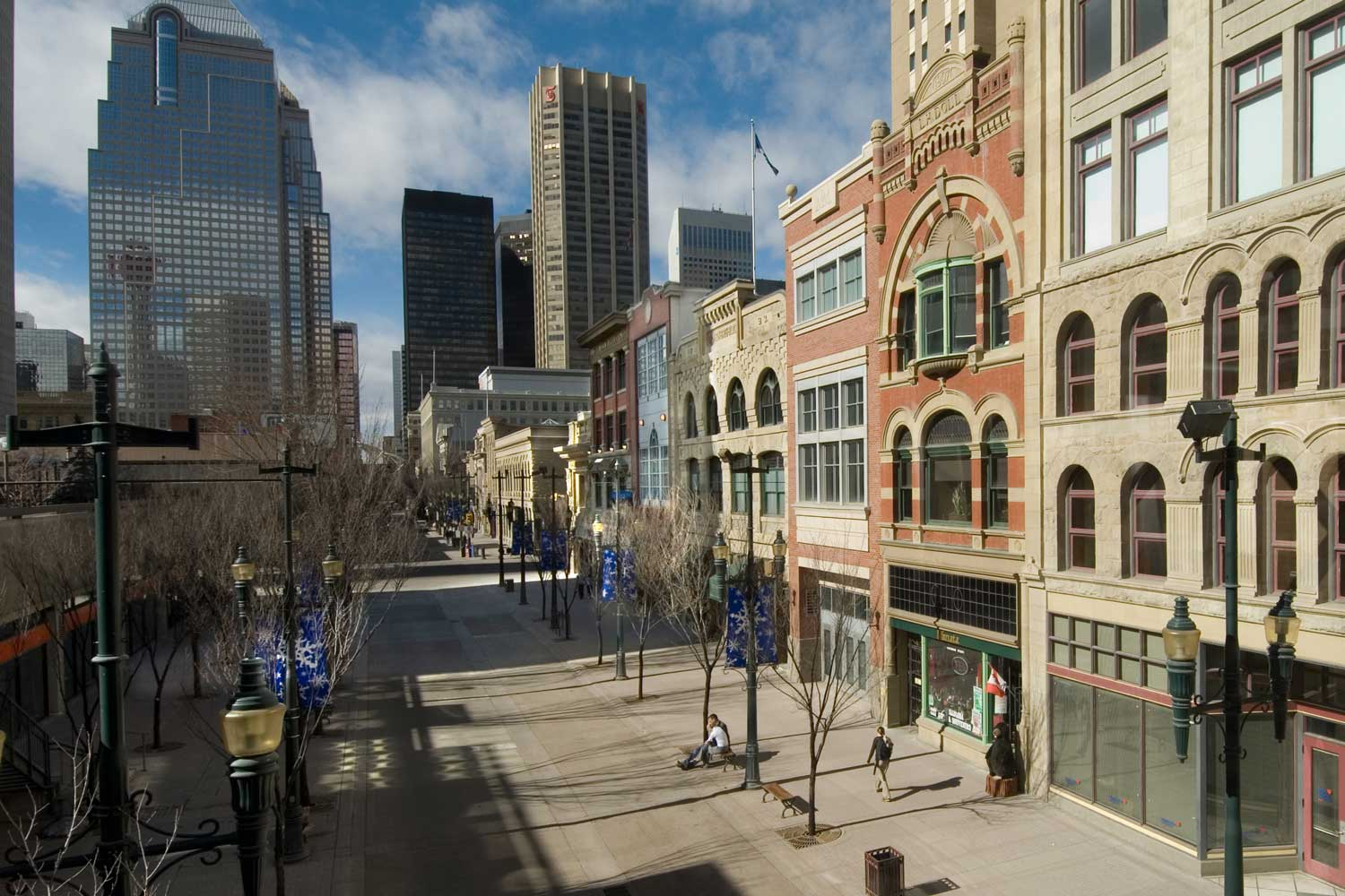 Historic Building facades on Stephen Avenue in Calgary Alberta. Photo by Chuck Szmurlo taken March 11, 2007 with a Nikon D200 and a Nikon 12-24 f4 lens.